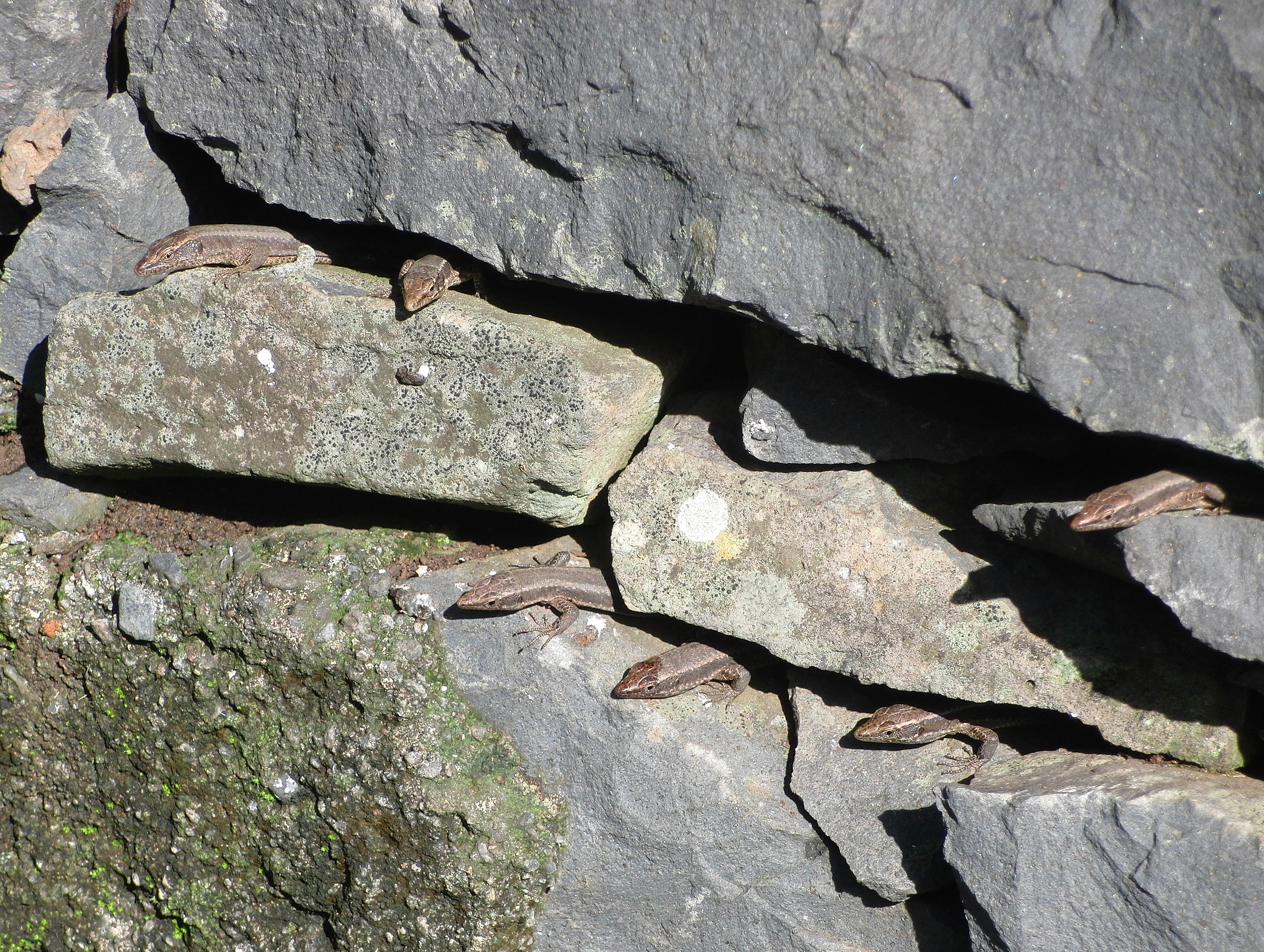 Teira dugesii in Funchal, Madeira